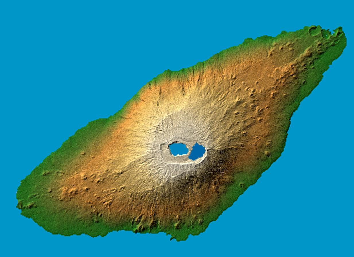 en : Ambae Island, Vanuatu. False-color, computed shadows. Colored according to elevation. Elevation data acquired by the Shuttle Radar Topography Mission on 2000-02-11 aboard Endeavour shuttle. fr: L'ile de Ambae dans l'archipel de Vanuatu. Image en relief obtenue d'apres des relevés pris par la navette Endeavour en février 2000 Location: 15.4 degree south latitude, 167.9 degrees east longitude Orientation: North toward the top, Mercator projection Size: 36.8 by 27.8 kilometers (22.9 by 17.3 miles) Image Data: shaded and colored SRTM elevation model Date Acquired: February 2000 original name : PIA06675.jpg